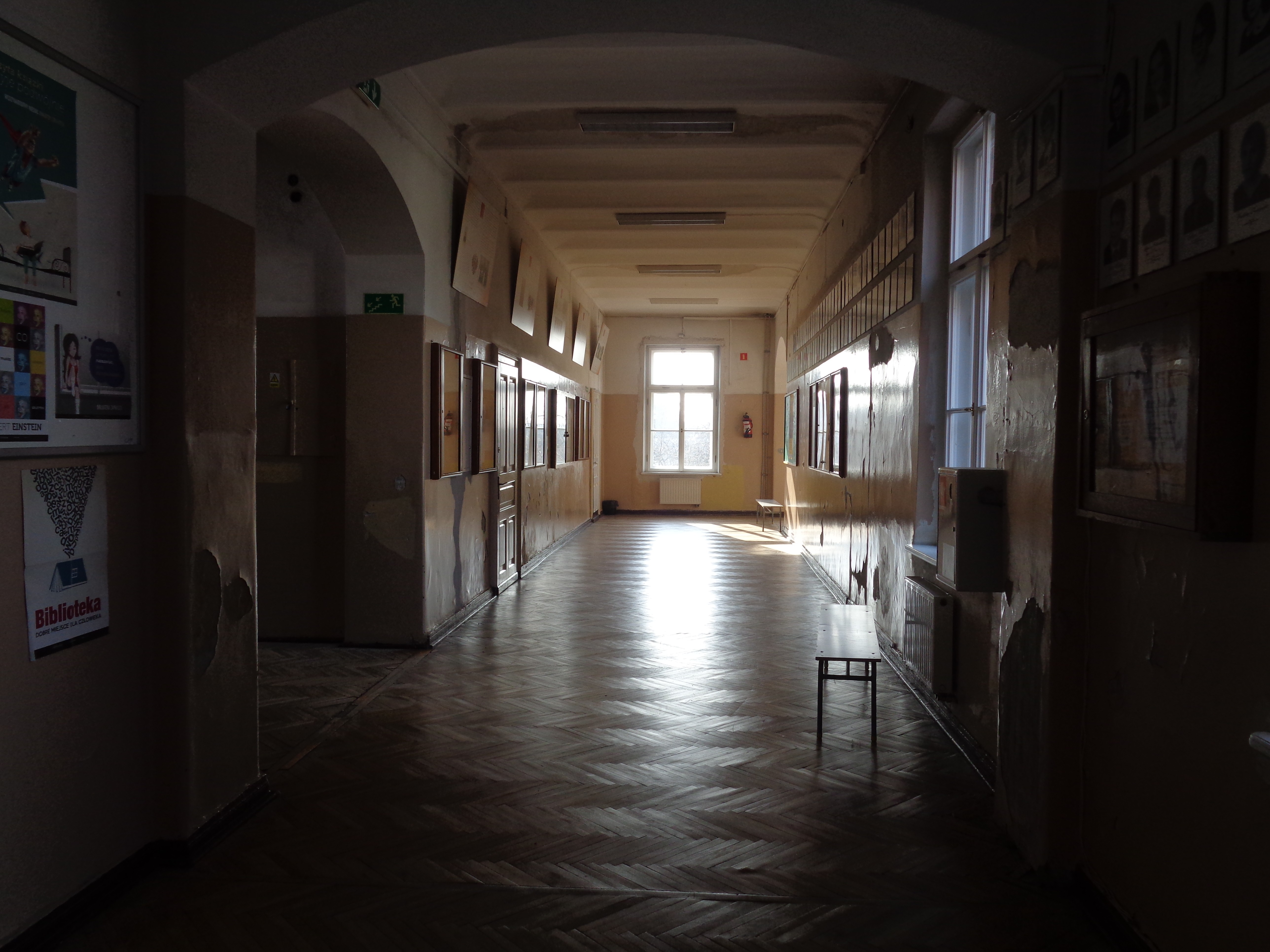 Indoor of High School of Kuyavian Ground in Włocławek.